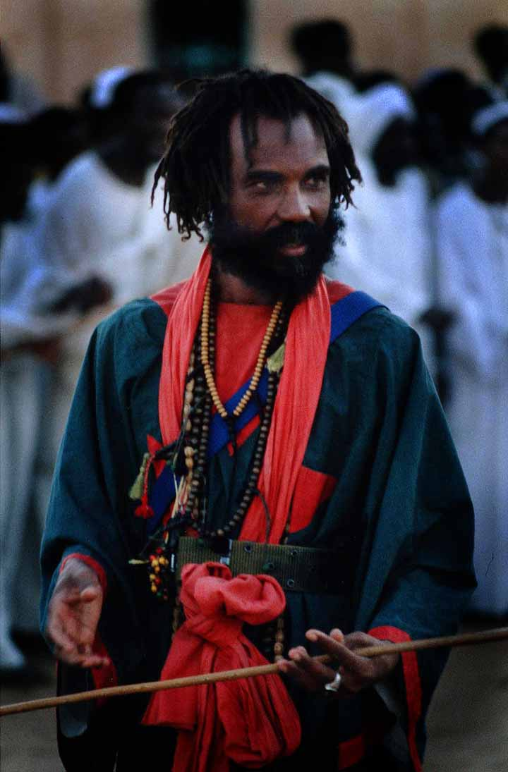 dervish with stick in Sudan